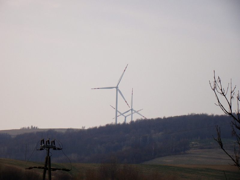 Wind farm Bukowsko-Nowotaniec